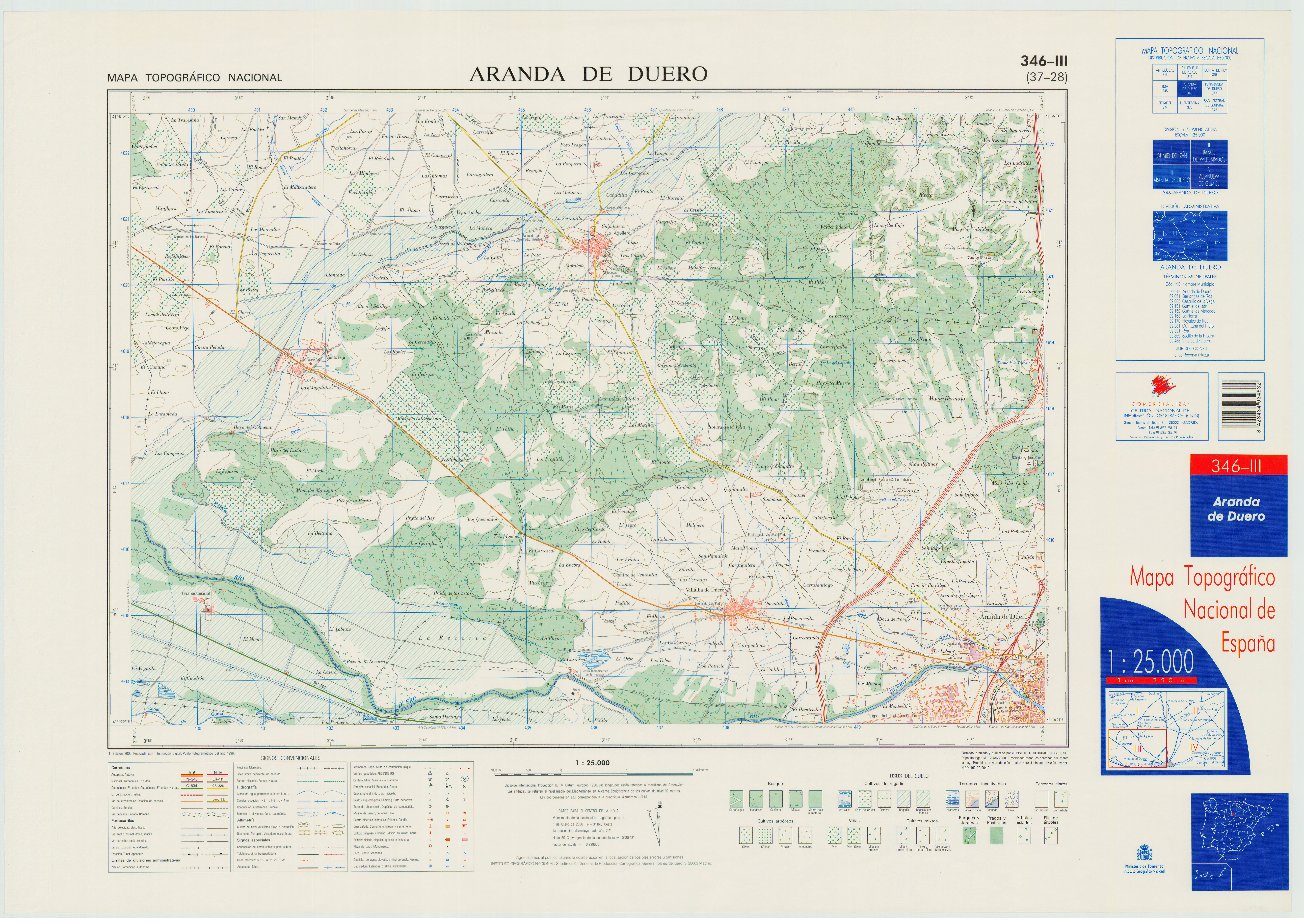 Fragment 0346c3 of the National Topographic Map of Spain in 2000 at a scale of 1:25000 printed and scanned with a resolution of 250 ppi. It shows Aranda de Duero.